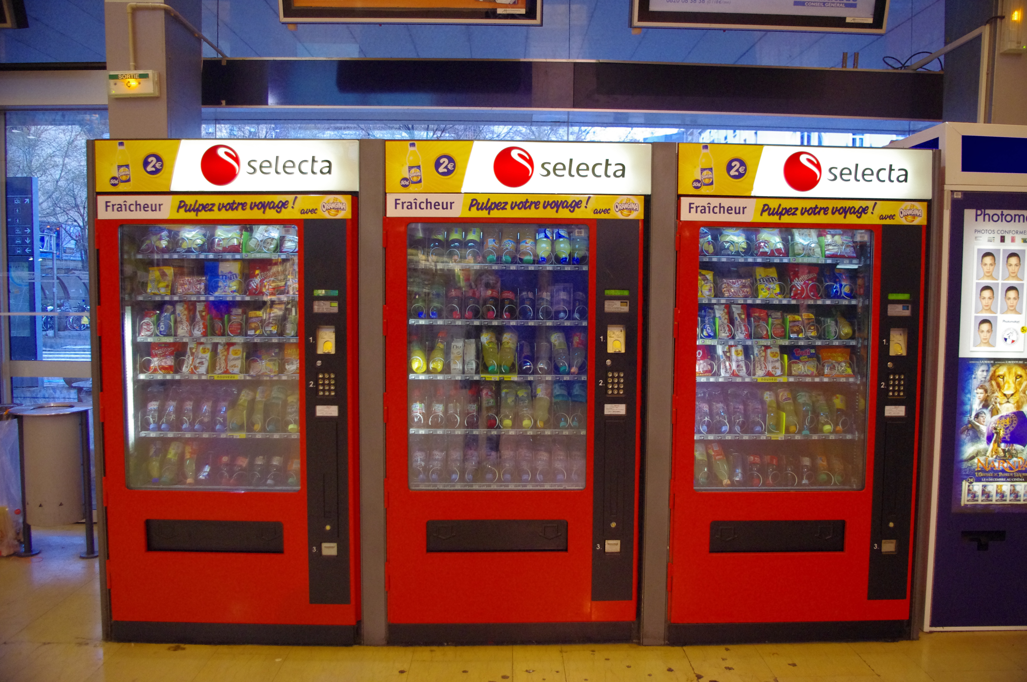 Vending machine, France edition